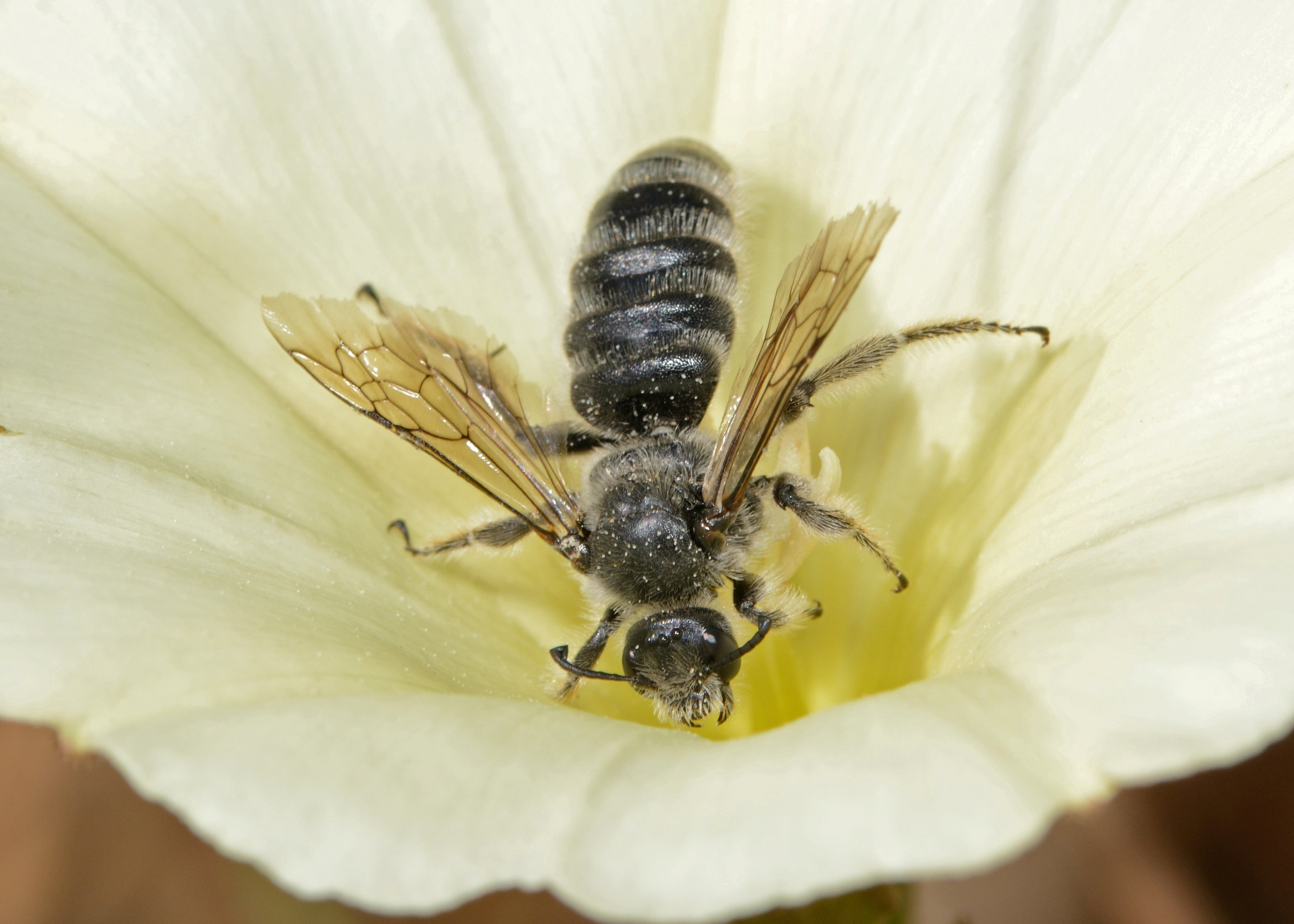 Systropha planidens, male on a Convolvulus scammonia flower, Mount Carmel, Israel, May 3, 2012.